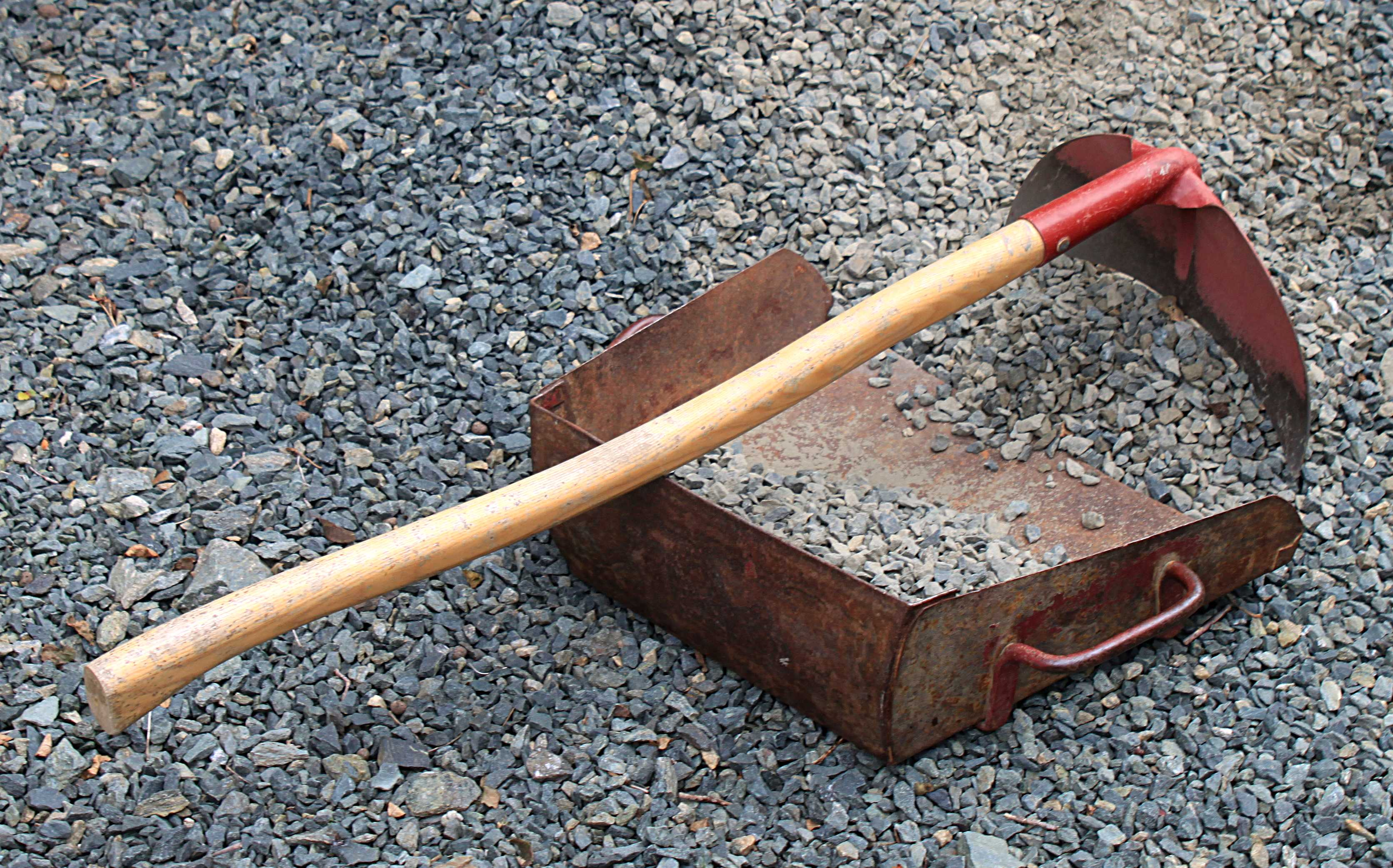 Shows "krafse" (Norw.) a hand tool for work with soil, gravel etc, and a special tray often used in conjunction